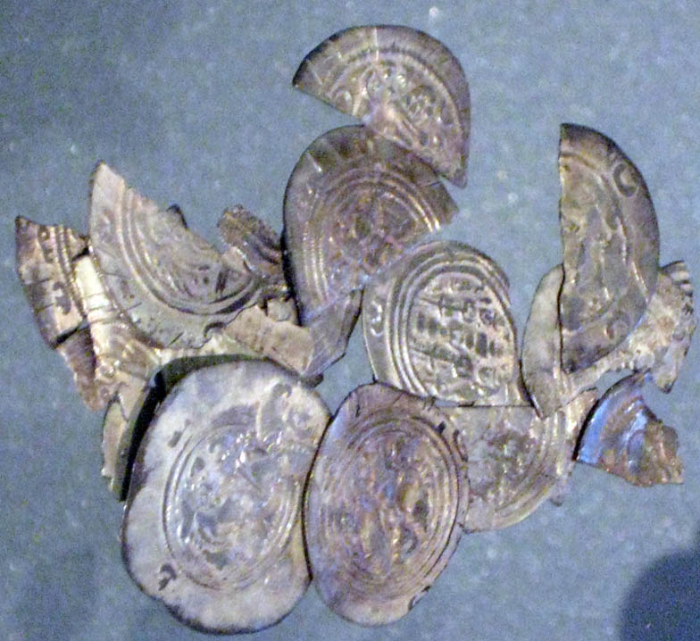 Sassanid coins in the Sundveda hoard, Sigtuna, Sweden. Discovered 2008. The hoard is from the Viking Age, 9th century. The coins from pre-Islamic Iran.